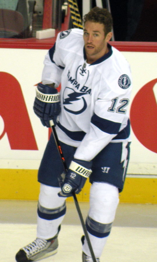 Tampa Bay Lightning forward Ryan Malone prior to a National Hockey League game in Calgary.